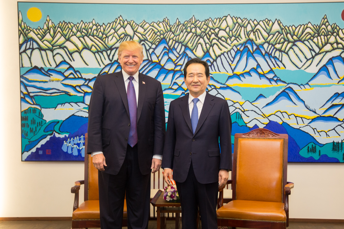 President of the United States Donald Trump and Speaker of the National Assembly of South Korea Chung Sye-kyun pose for a picture on November 7, 2017 in South Korea.